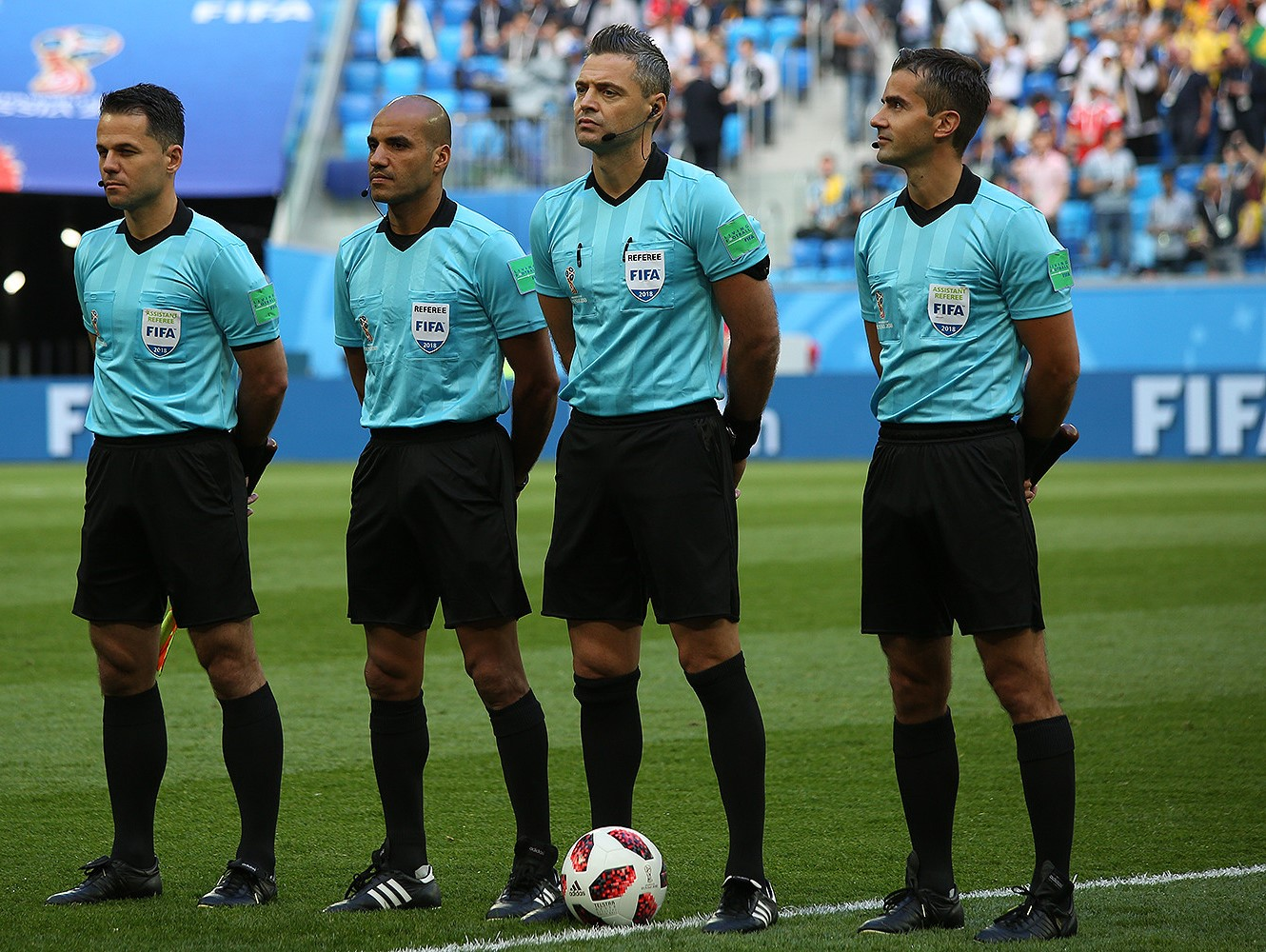 2018 FIFA World Cup Match 55, Sweden v Switzerland